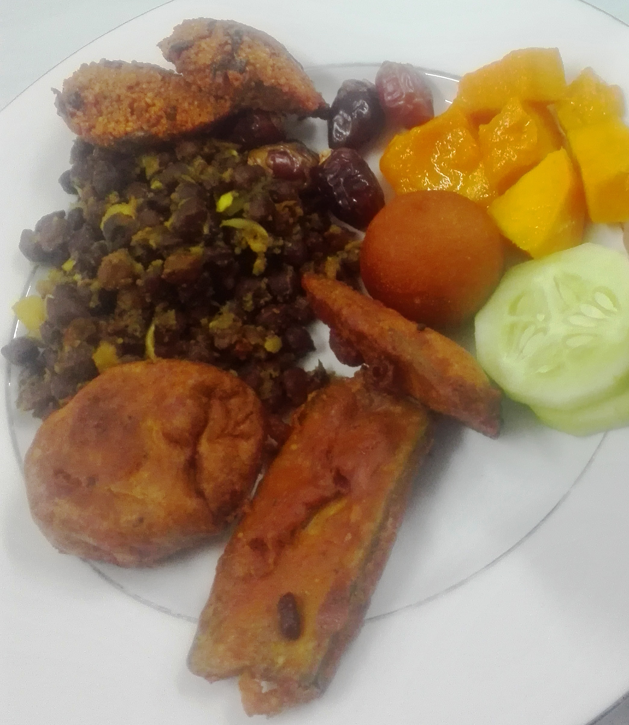 different types of food items on Ifter plate